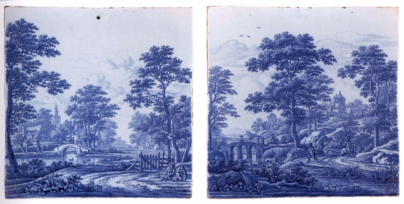 Two Plaques with a Landscape (c. 1690) by Frederik van Frytom Blue-painted faience, 35 x 34 cm (each), Huis Doorn